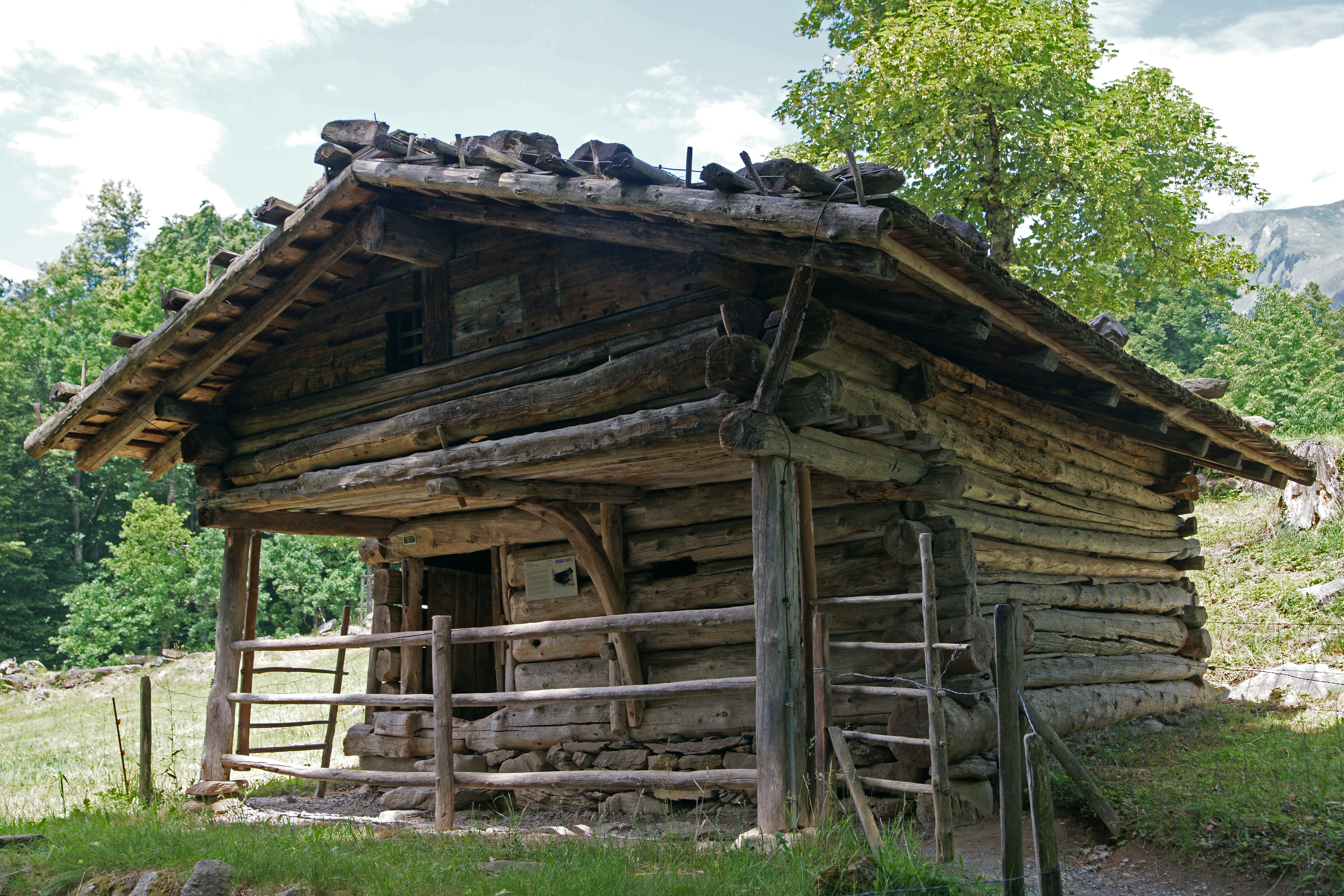 Swiss Open Air Museum Ballenberg: Herdsman's cottage "Litschentellti" of Axalp BE (1520)